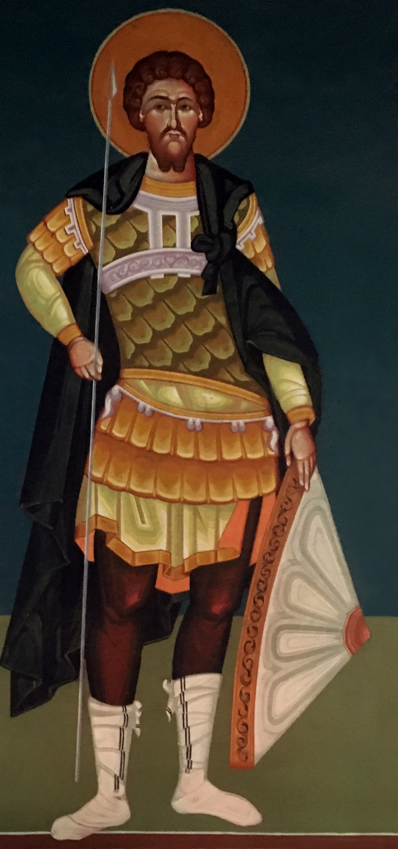 Saint Theodore Stratelates (contemporary orthodox iconography) Serbia